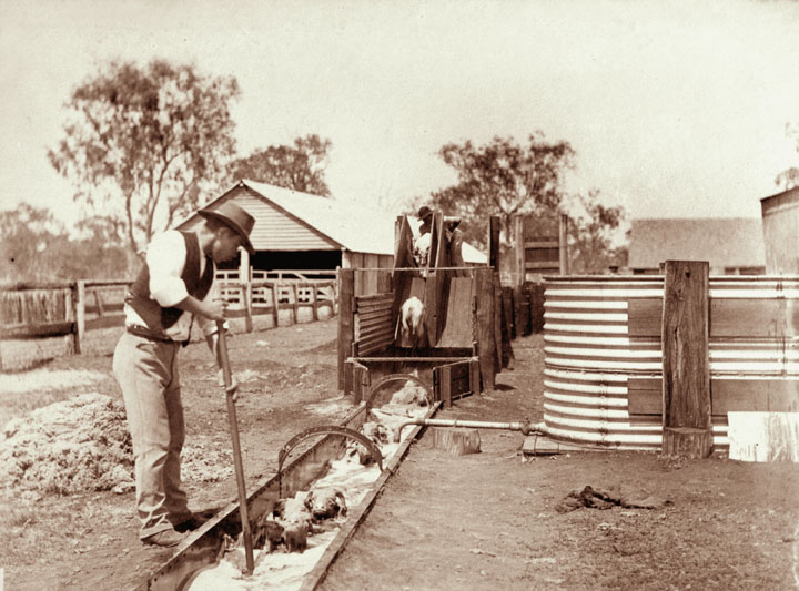 Sheep dipping at Yandilla.